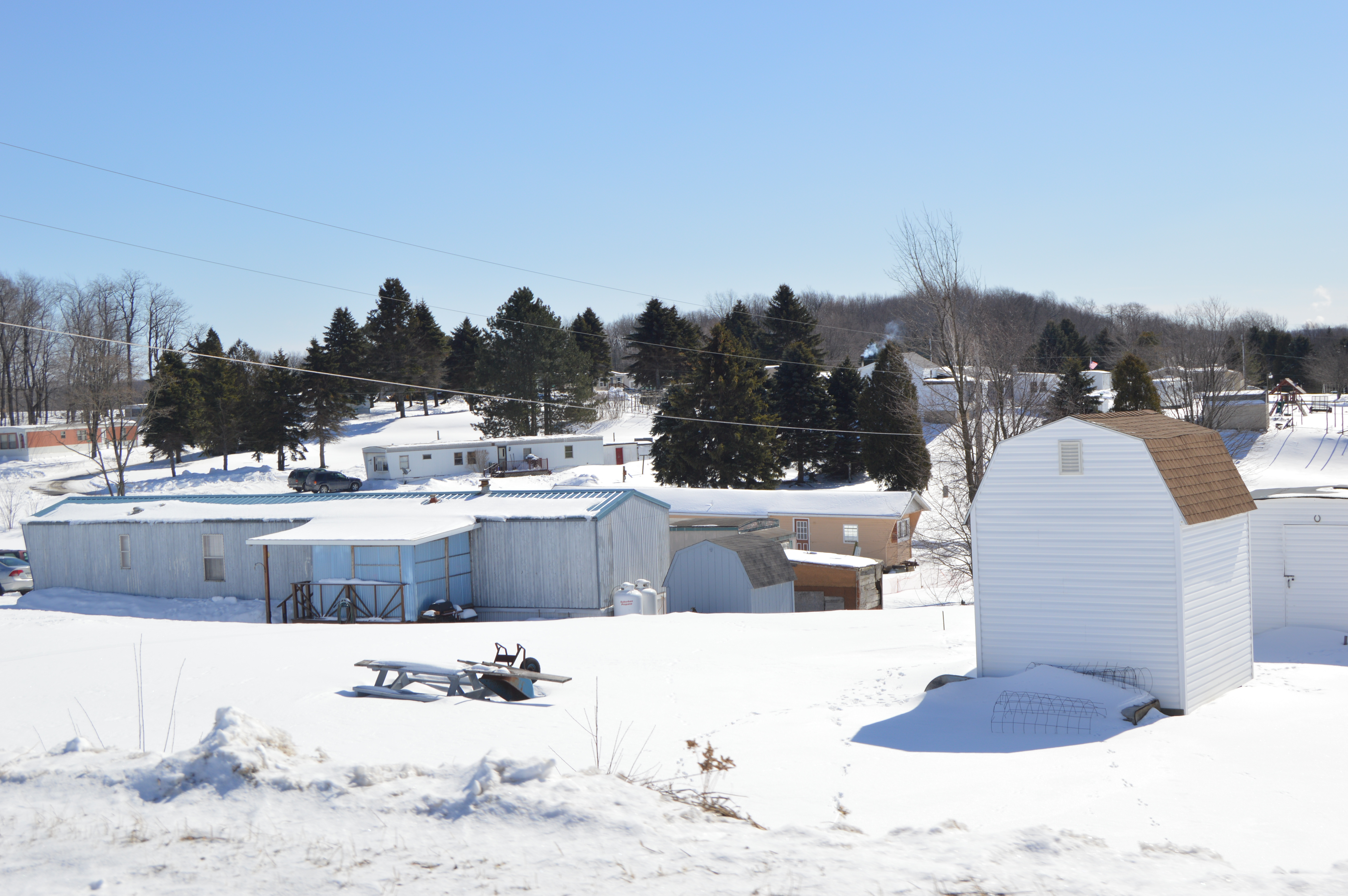 Overview from the north of a trailer park located off U.S. Route 219 south of Carrolltown in East Carroll Township, Cambria County, Pennsylvania, United States.